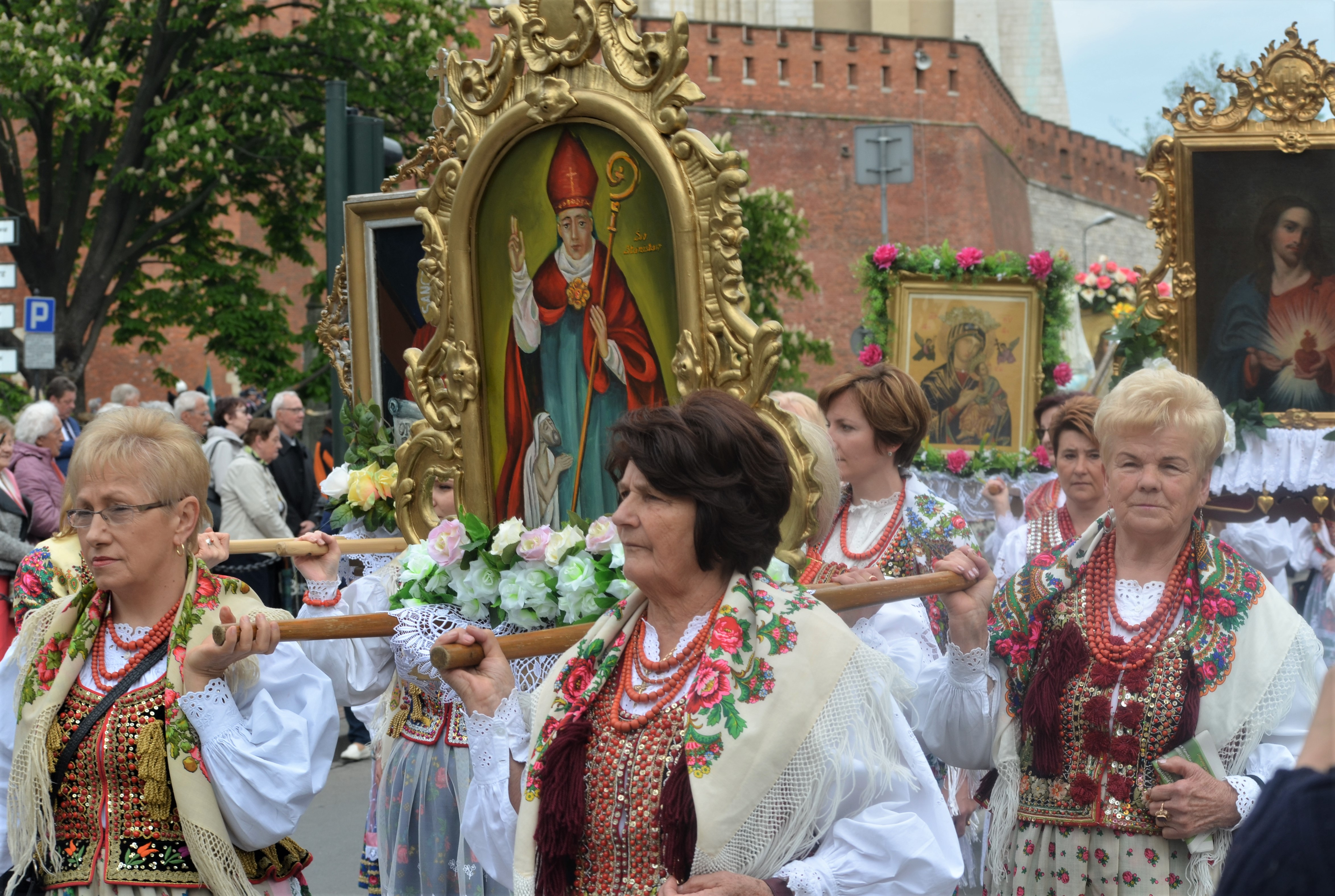 Prozession zu Ehren des Heiligen Stanislaus von Wawel nach Skalka